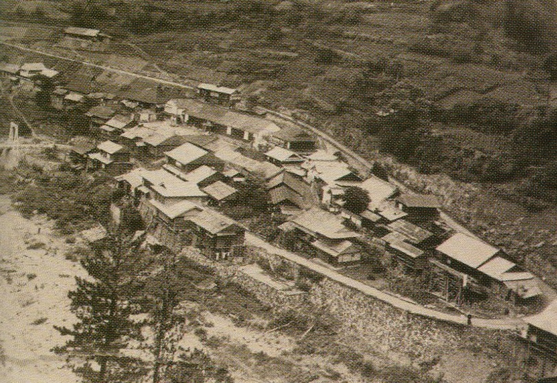 Sakamoto Oto Nara in about 1927